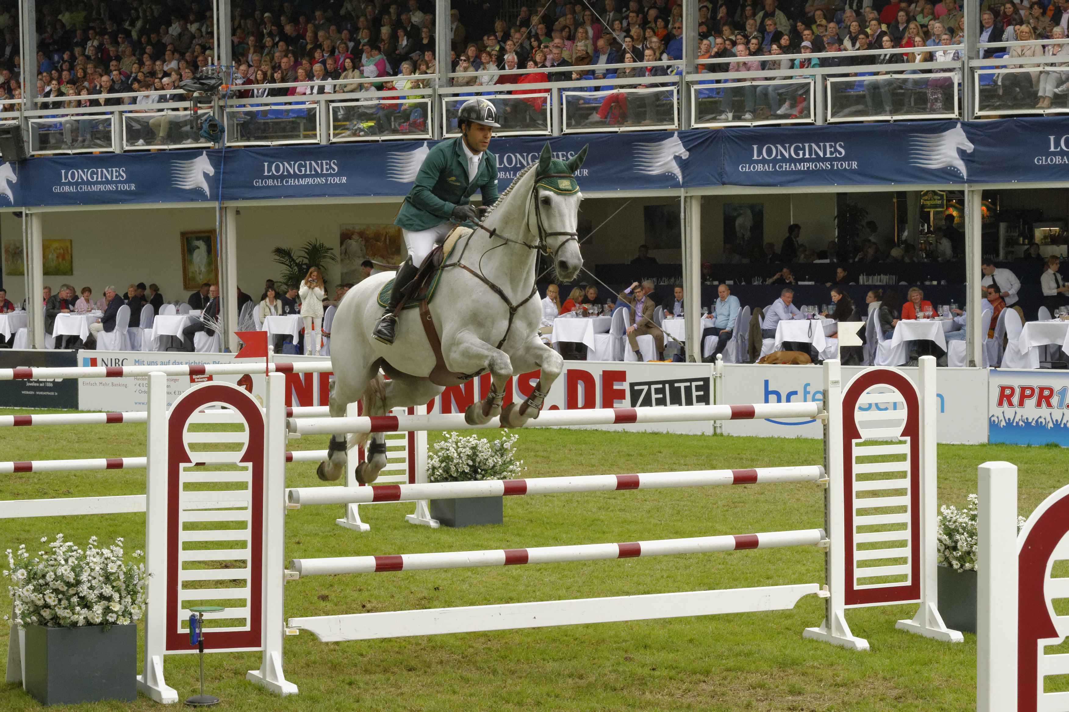 Internationales Pfingstturnier Wiesbaden 2013 The making of this document was supported by the Community-Budget of Wikimedia Germany.